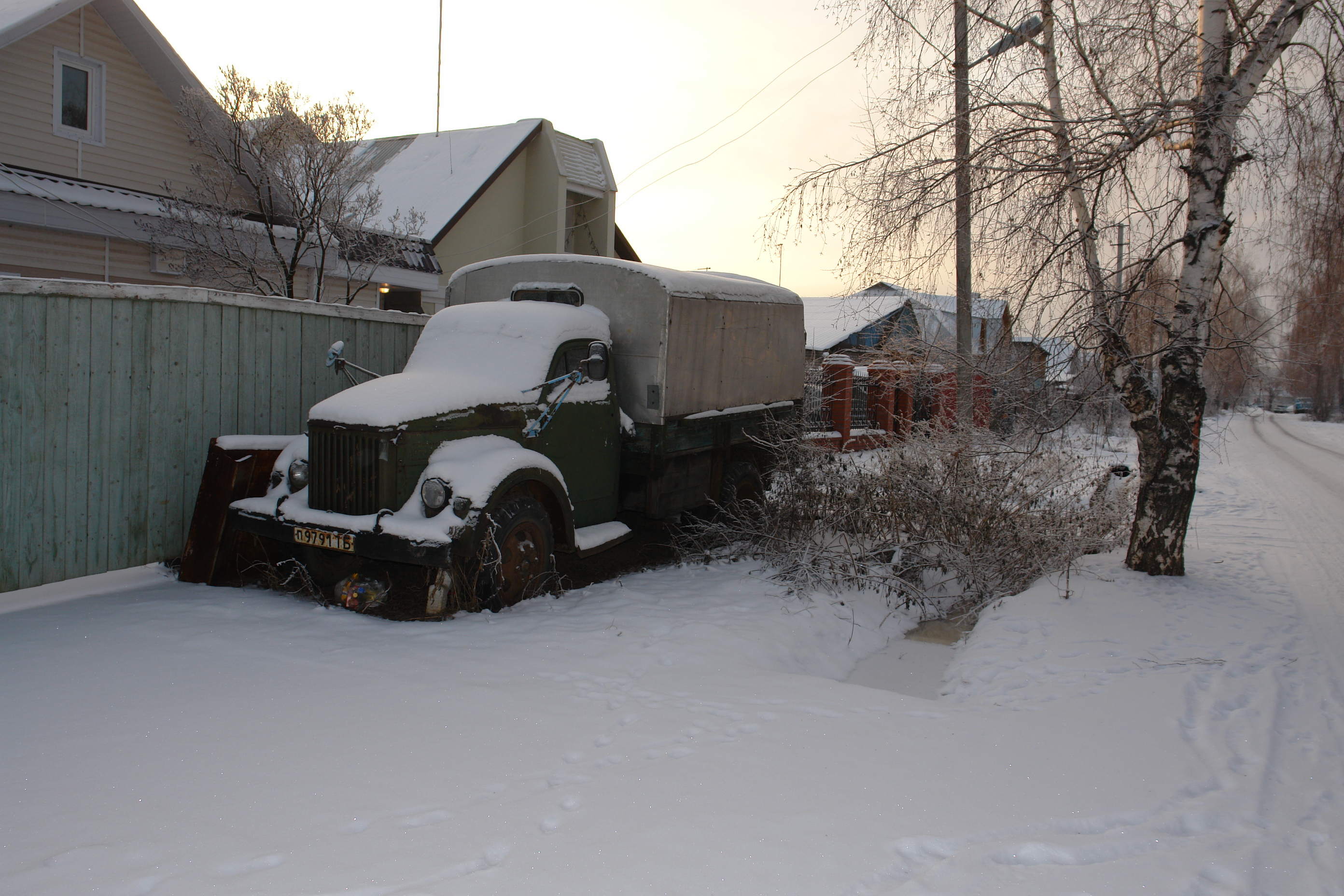 GAZ-51 truck covered by snow in a village near Kazan.